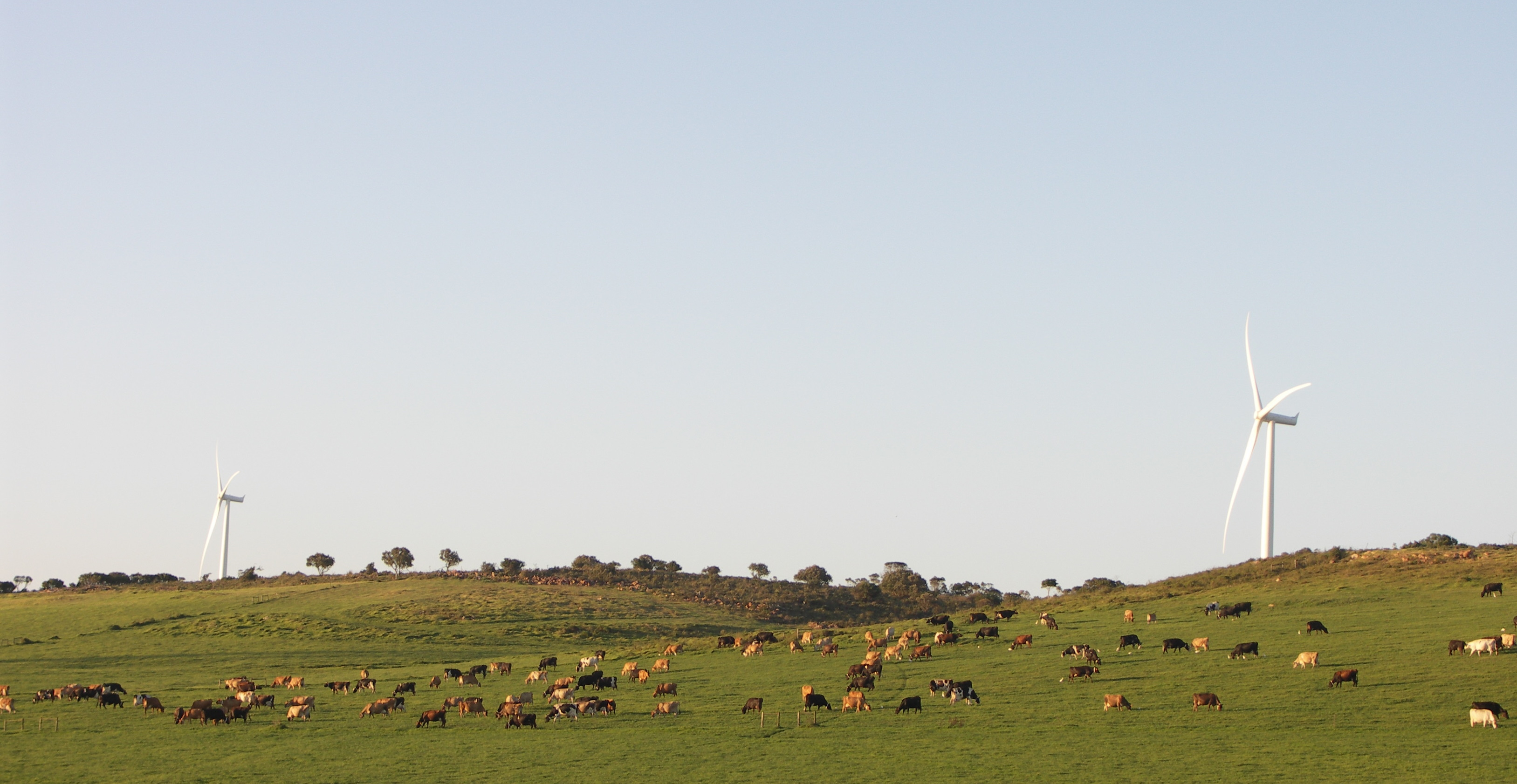 Two turbines on the Jeffreys Bay wind farm next the to N2, Eastern Cape, South Africa